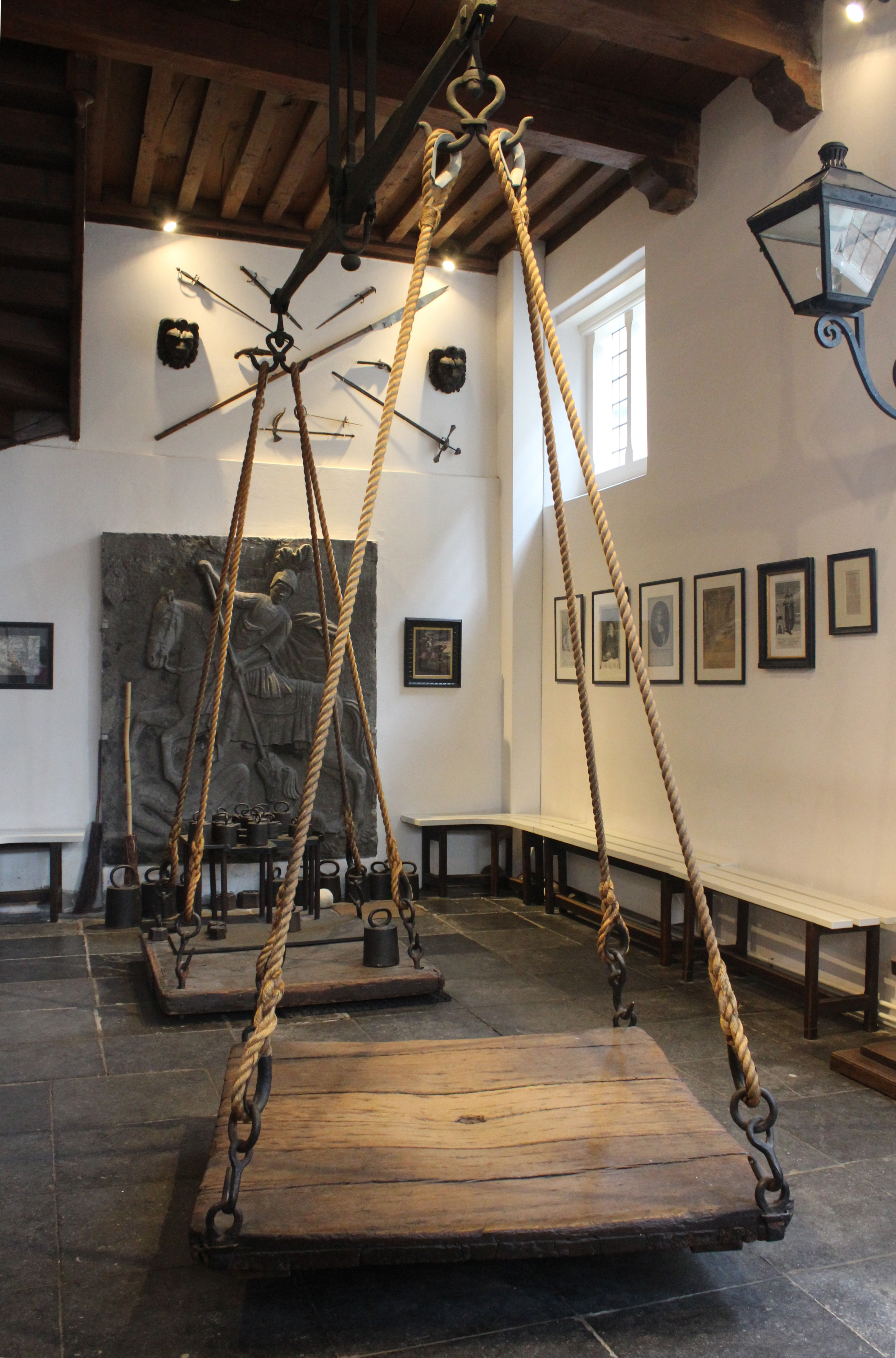 De Heksenwaag (Witches' scales) at Oudewater, Netherlands. In medieval times, women suspected of witchcraft were weighed on the scale. Should they weigh more than a specified amount, they were deemed unable to fly and therefore not witches. At that time, a certificate from Oudewater saved many women who were at danger of stoning or being burnt at the stake after a rigged trial. Today such certificates are a tourists attraction.